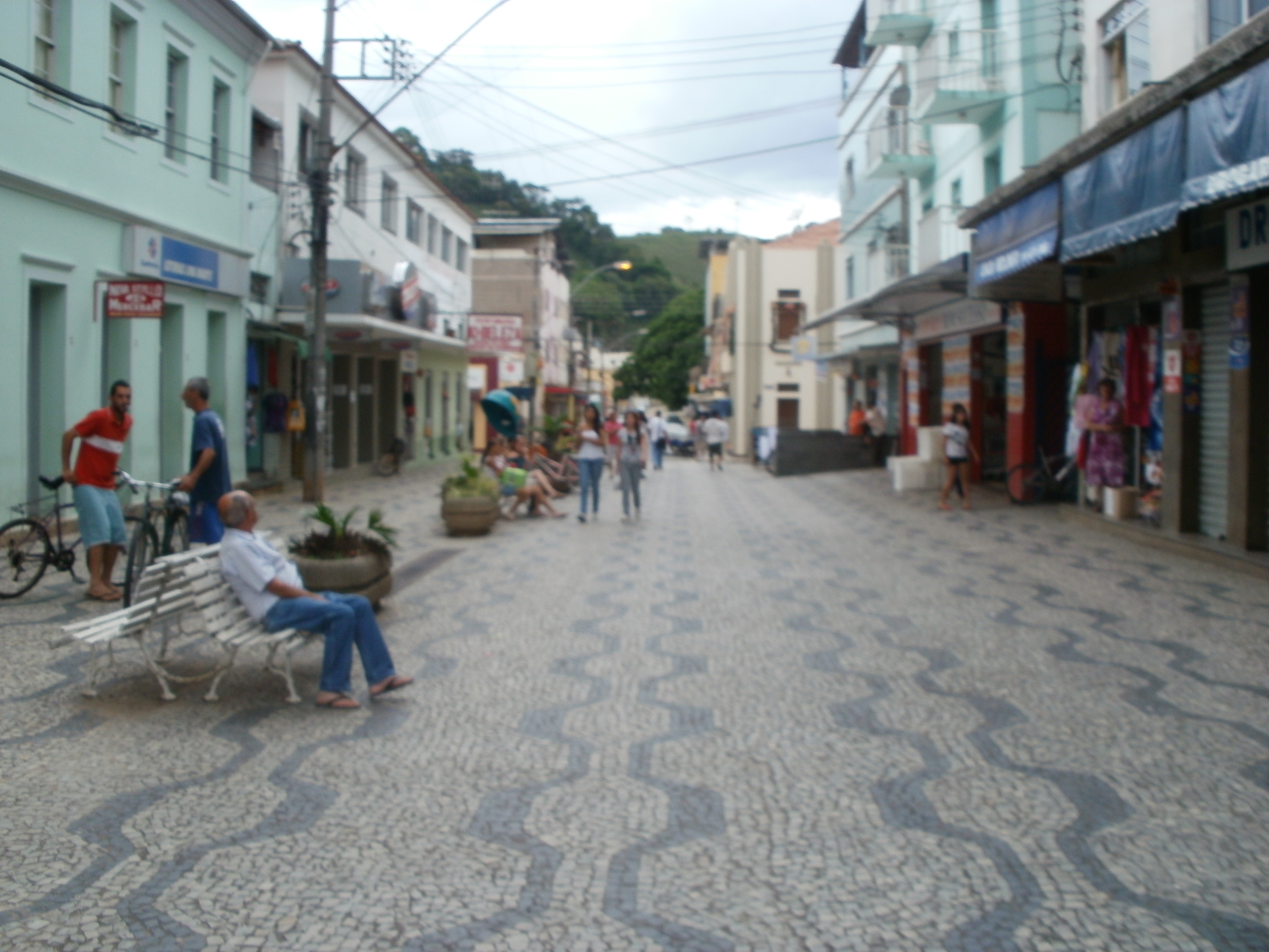 Nominato Paiva Duque Square, in Lima Duarte downtown, Minas Gerais, Brazil.